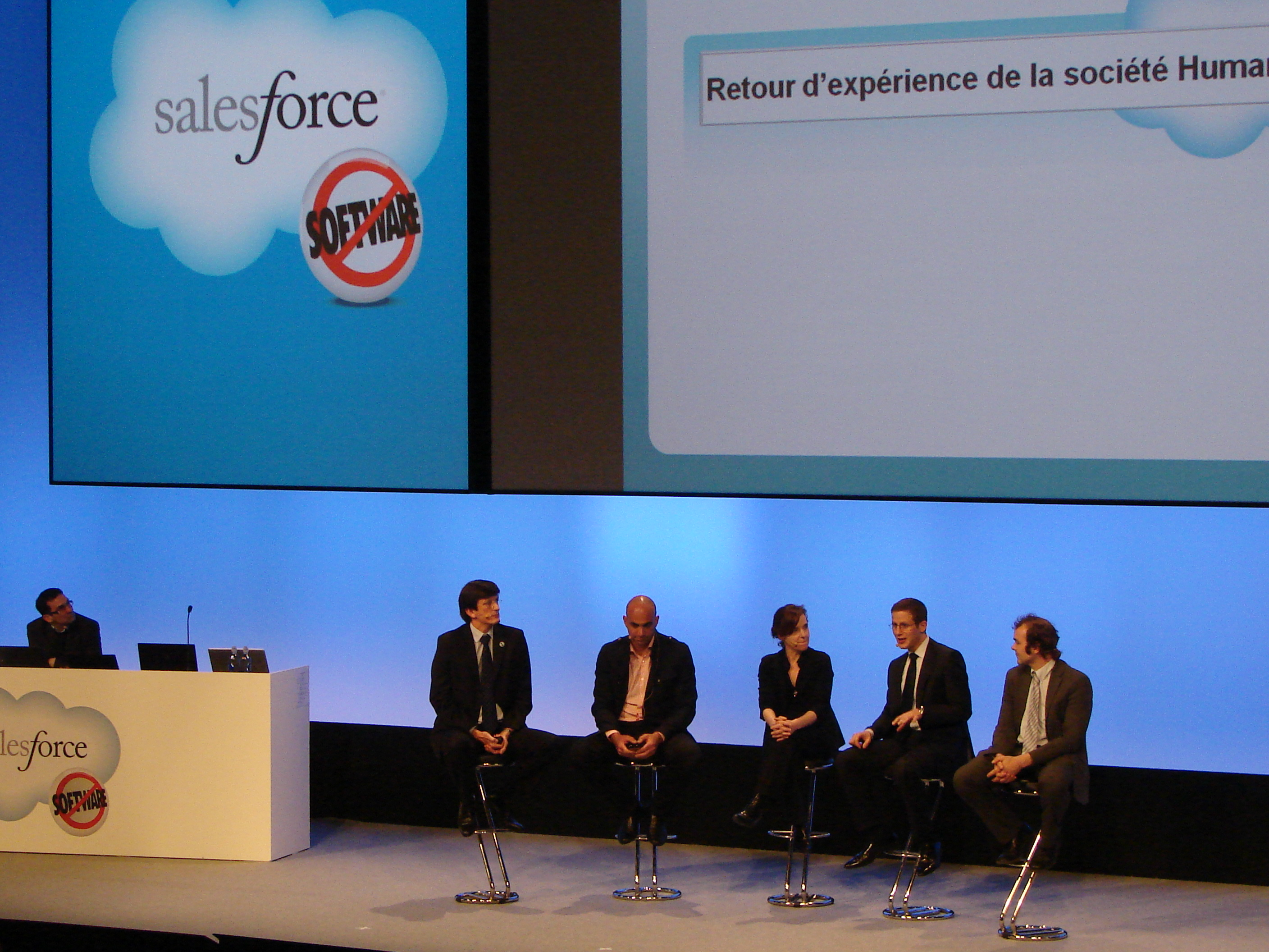 2011 at Paris in France with Loïc Le Meur